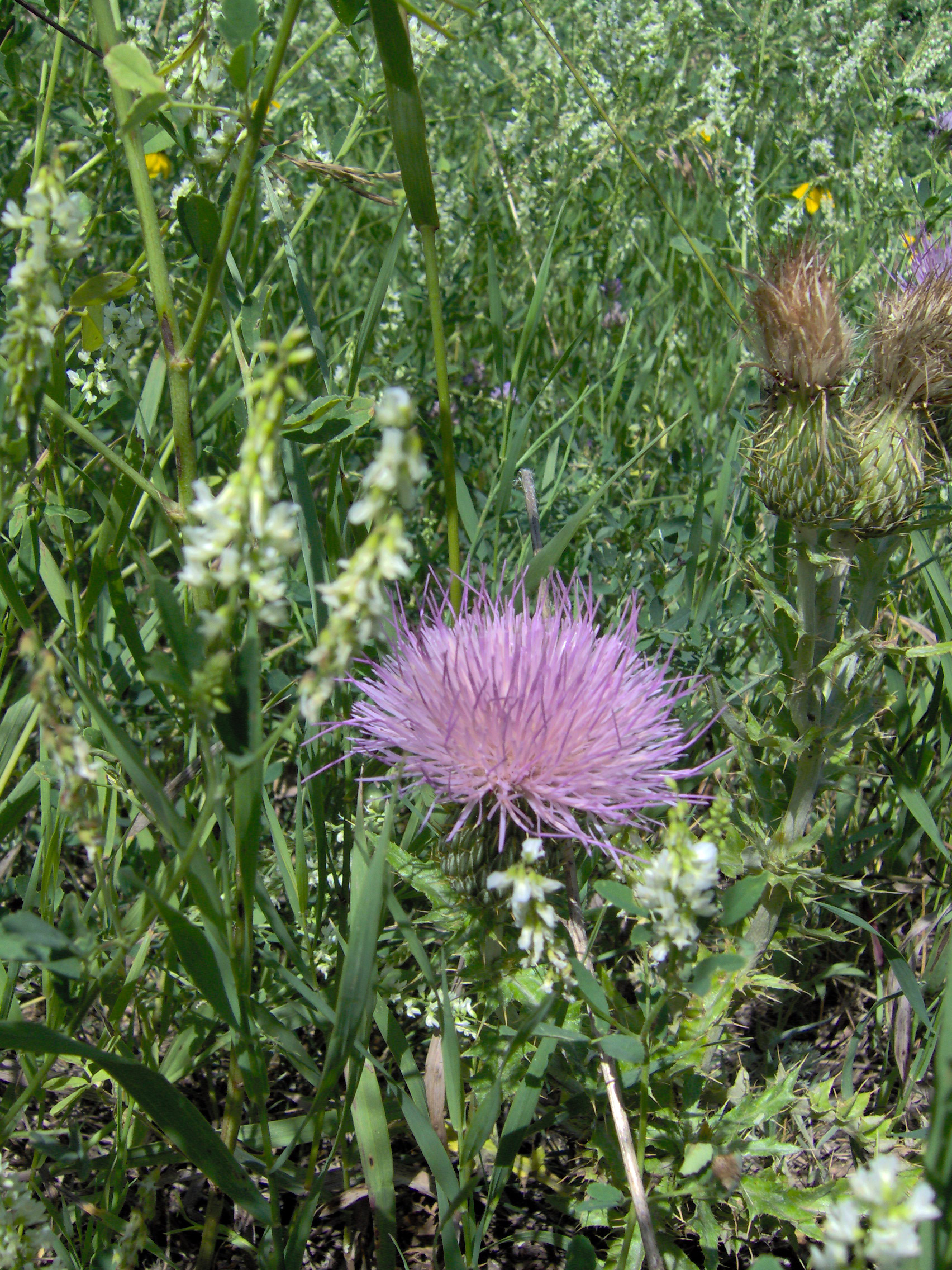 Thistle Cirsium or Carduus sp., Saskatchewan